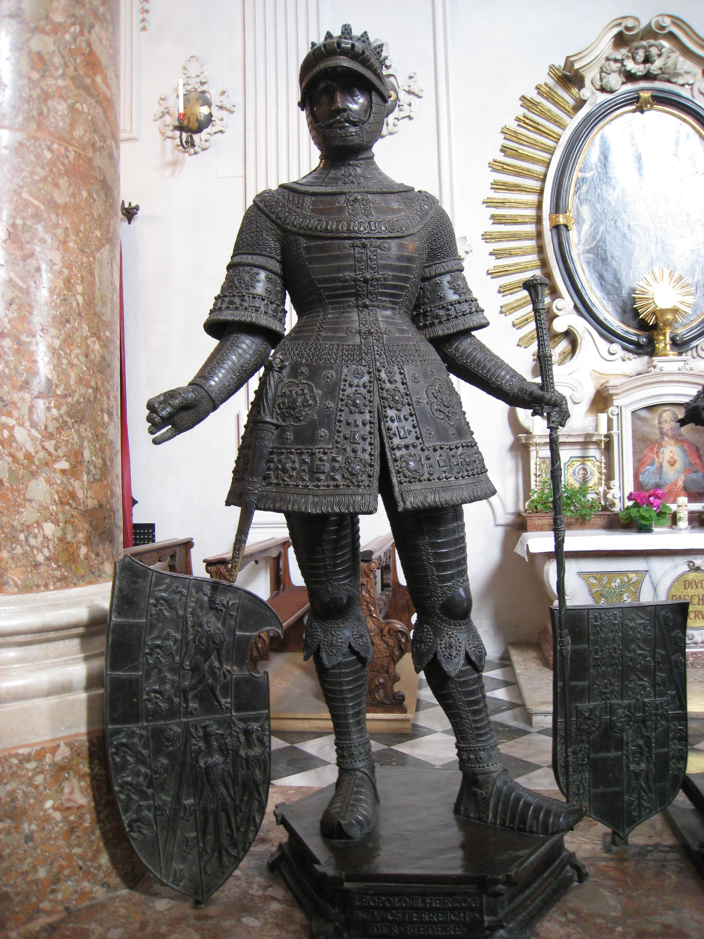 Statue within Hofkirche, Innsbruck, Austria. This statue is old enough so that it is not covered by any copyright.